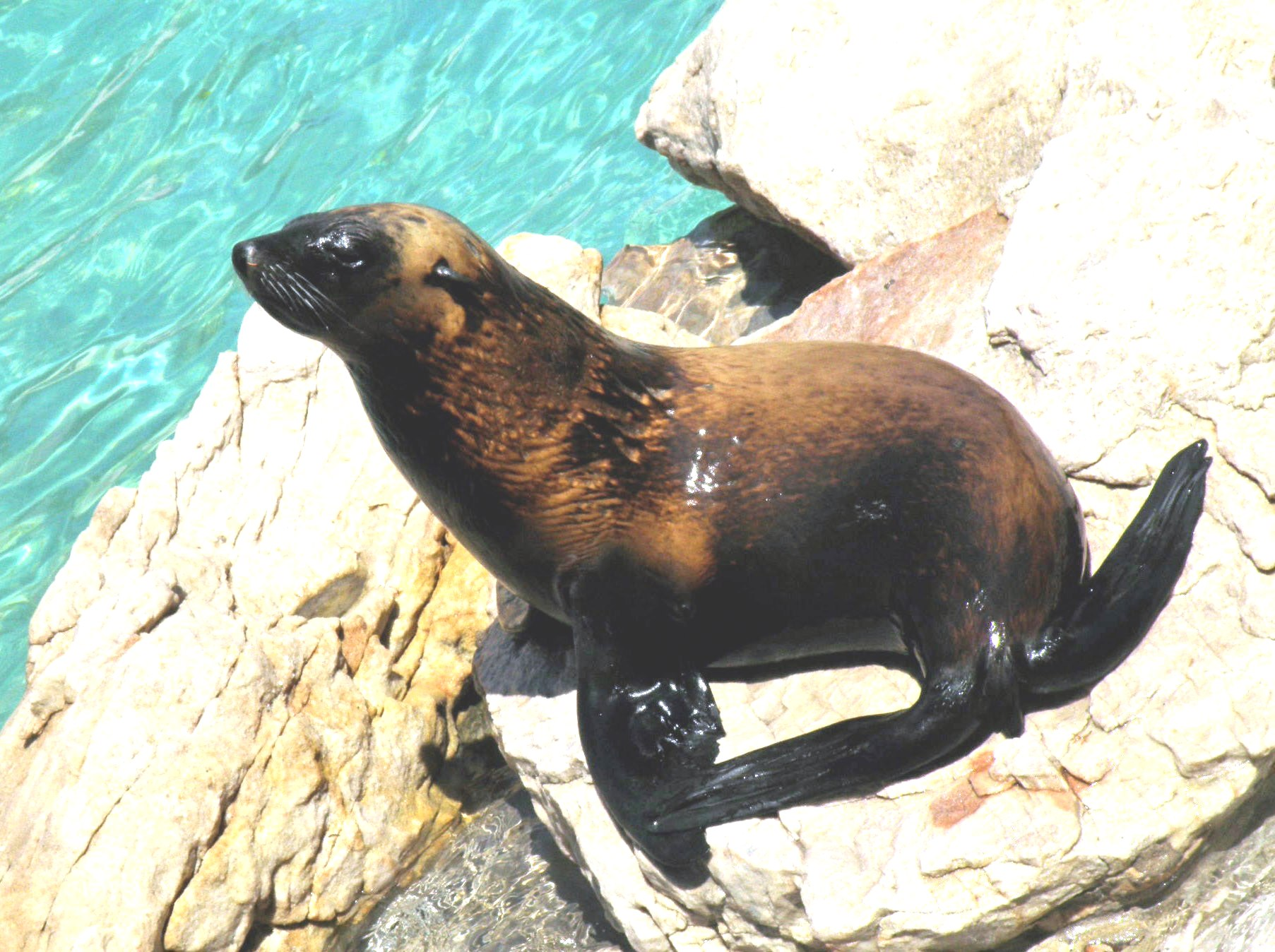 South American fur seal (Arctophoca australis australis = Arctocephalus australis) .